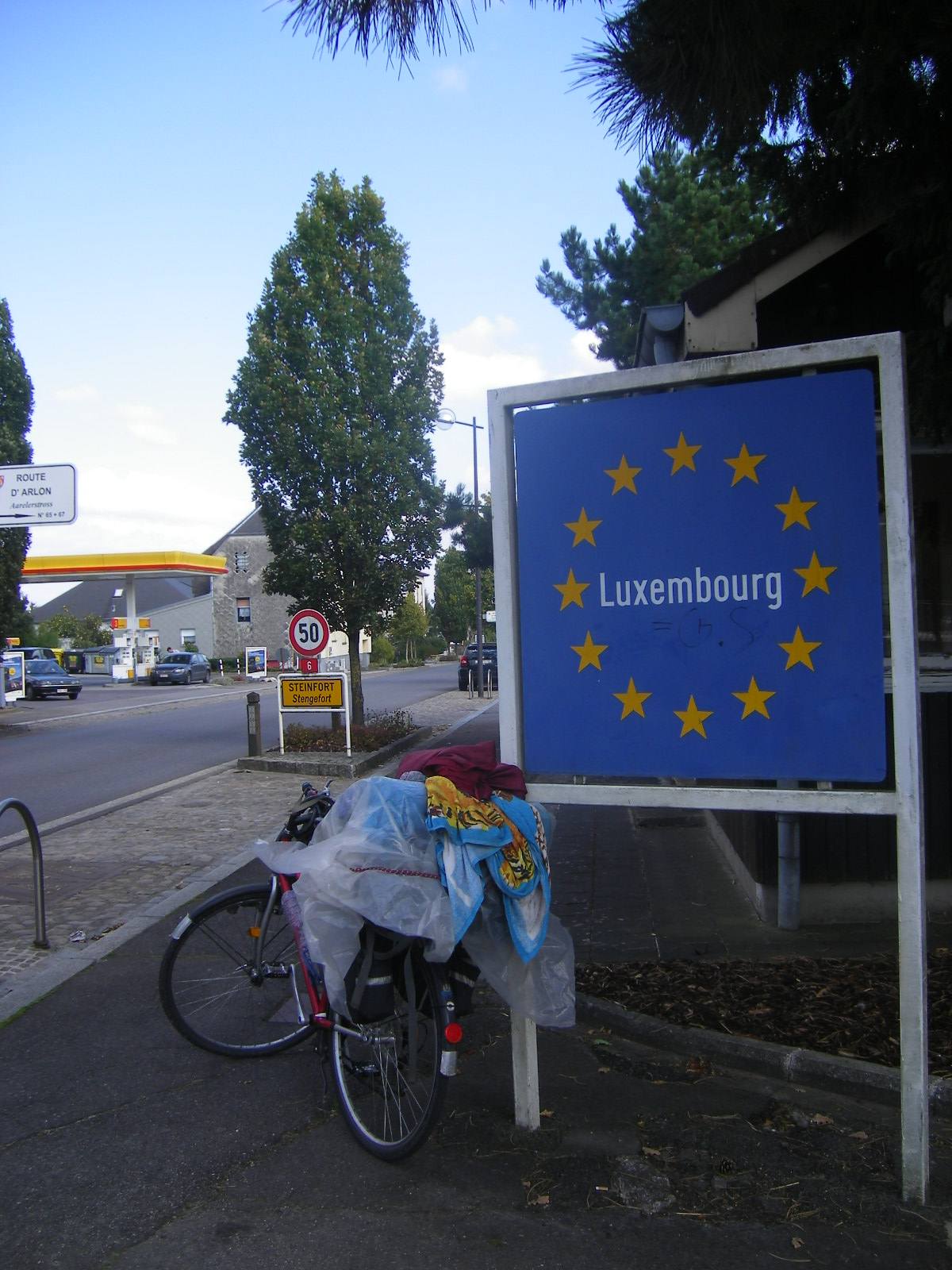 Border sign between Arlon and Steinfort (Belgium-Luxembourg).